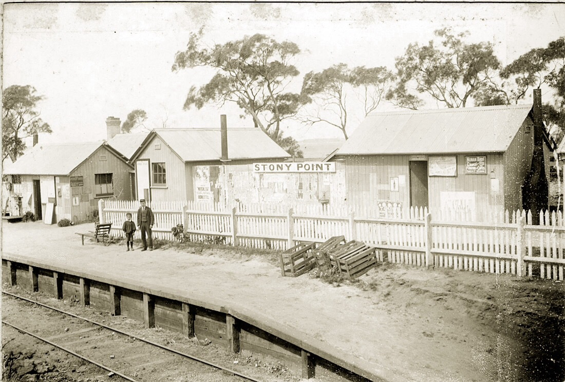 An official photo of stony point, taken in 1892 by the late Steven Harris, whose descendant is a spokesperson for Metro Trains.